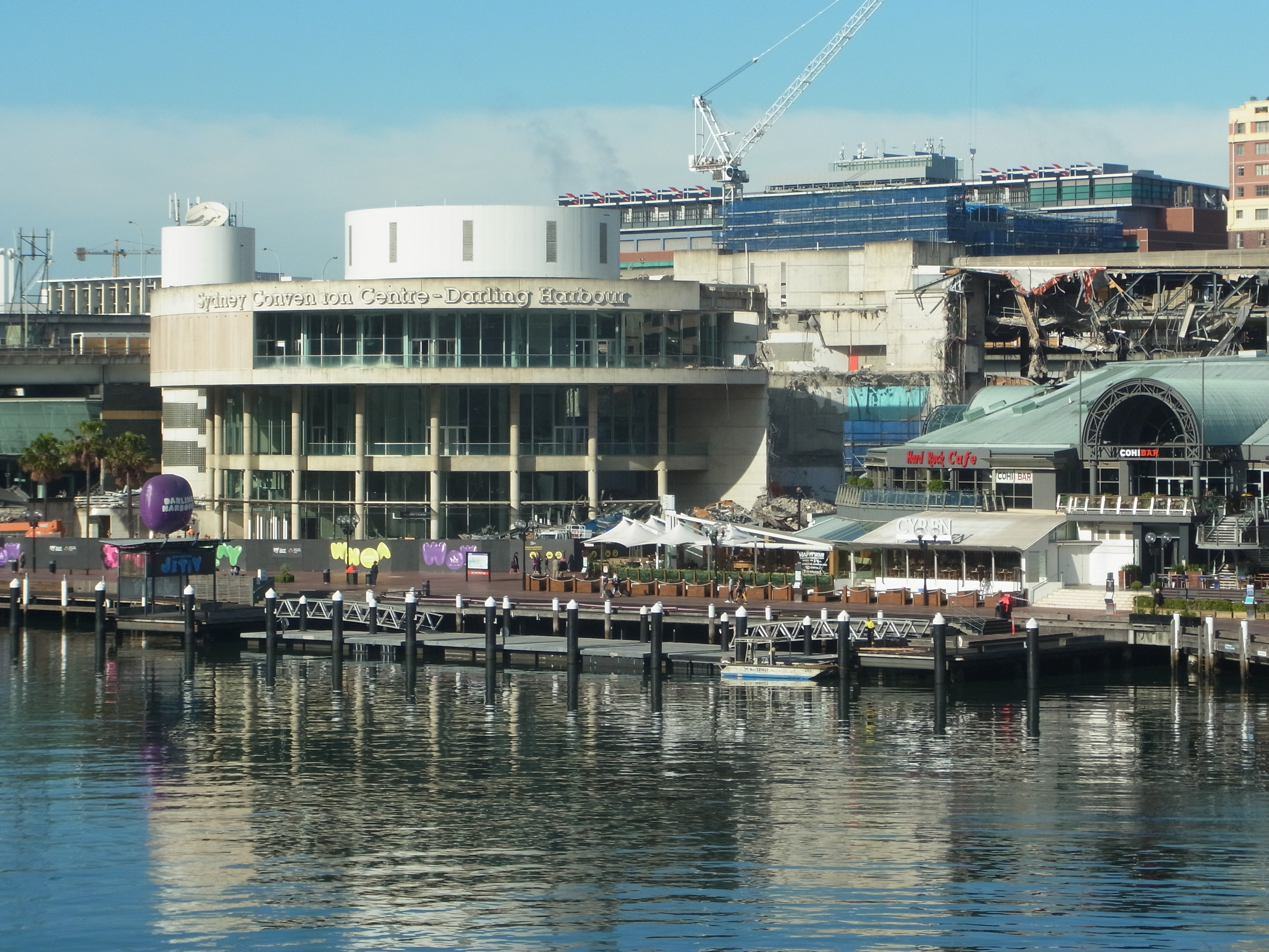 Demolish of Sydney Convention centre designed by John Andrews